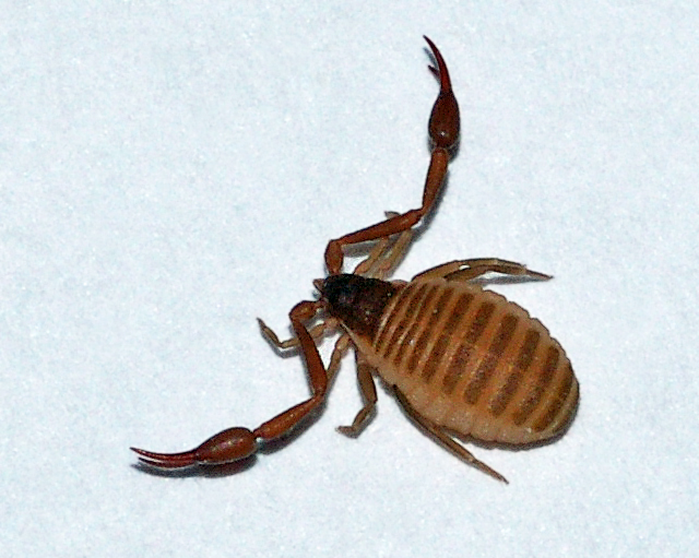 A pseudoscorpion named Chelifer cancroides. The specimen is about 2.5 to 3 mm long (without extremities) and lives between the author's books.